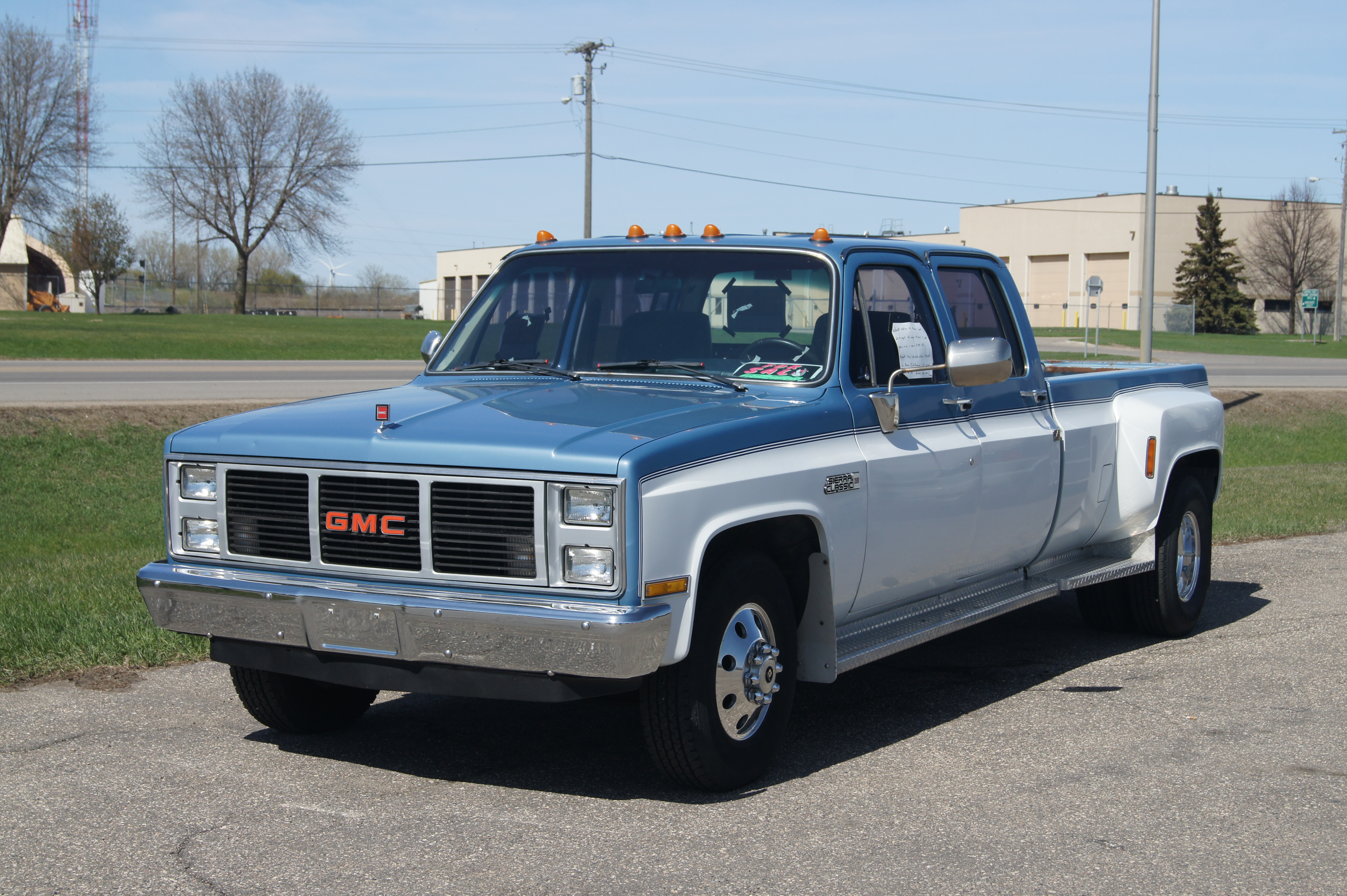 1986 GMC Sierra Classic 3+3 Pick-Up